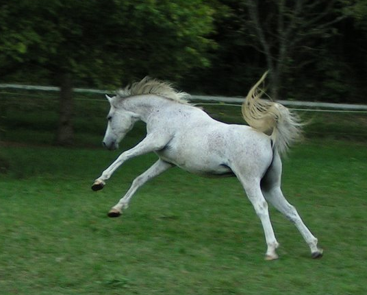 Horse play